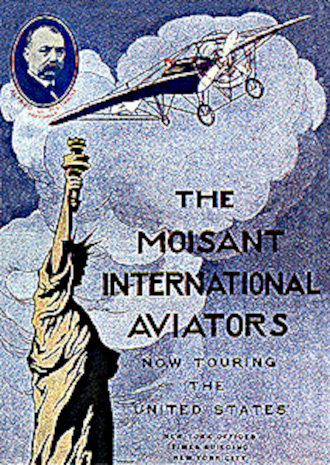 Moisant International Aviators promotional poster from 1910.